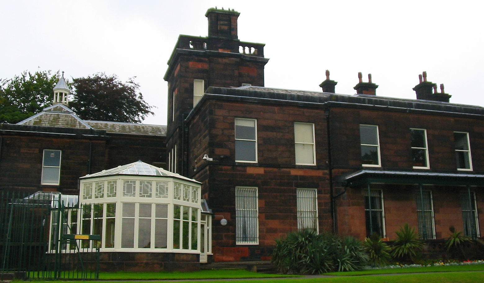 Liverpool